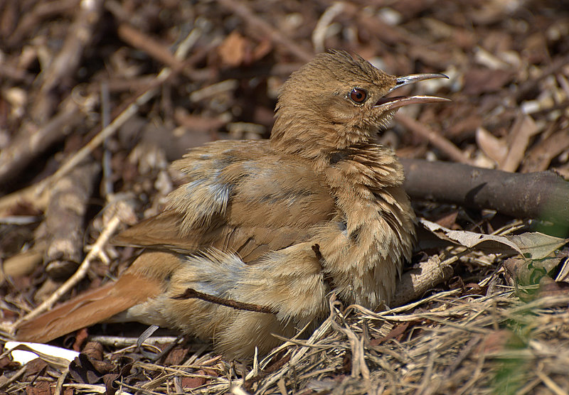 A Rufous Hornero (Furnarius rufus), immature